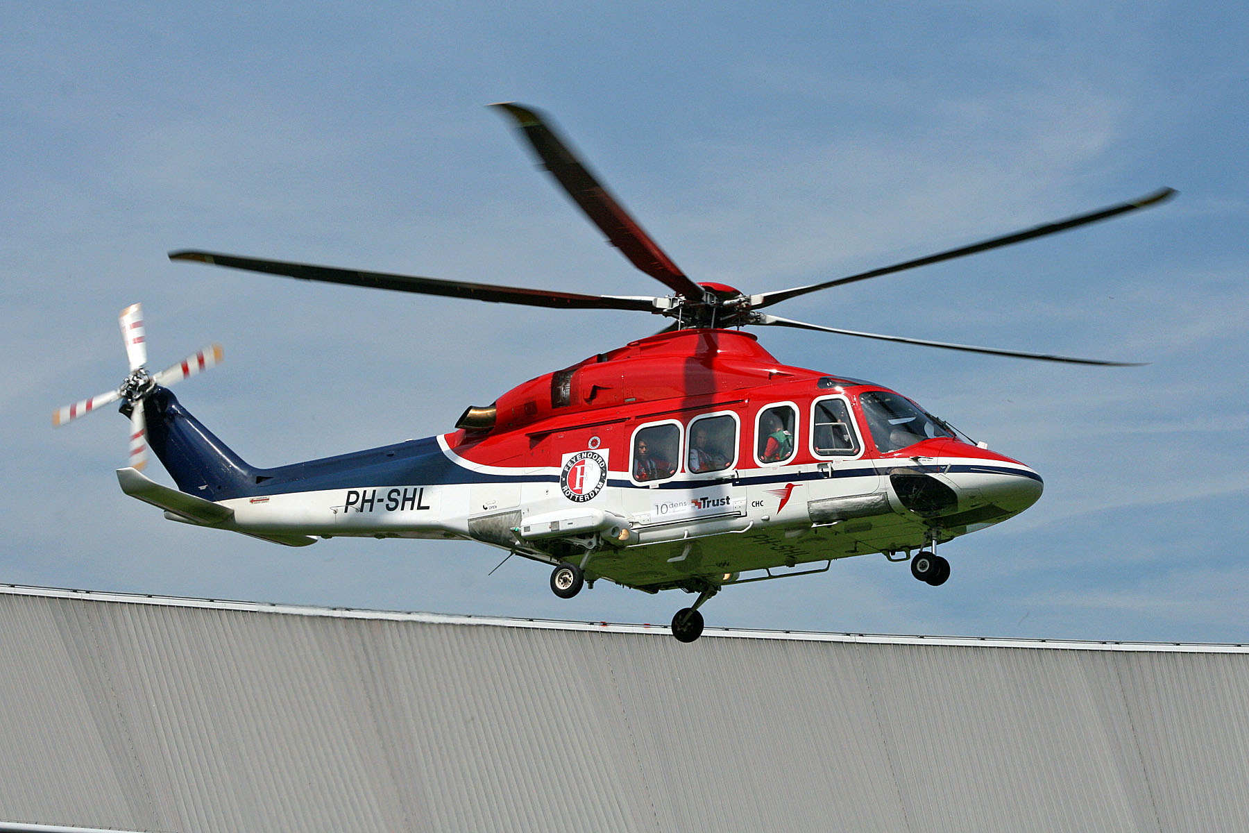 Feyenoord Helicopter entering the stadium